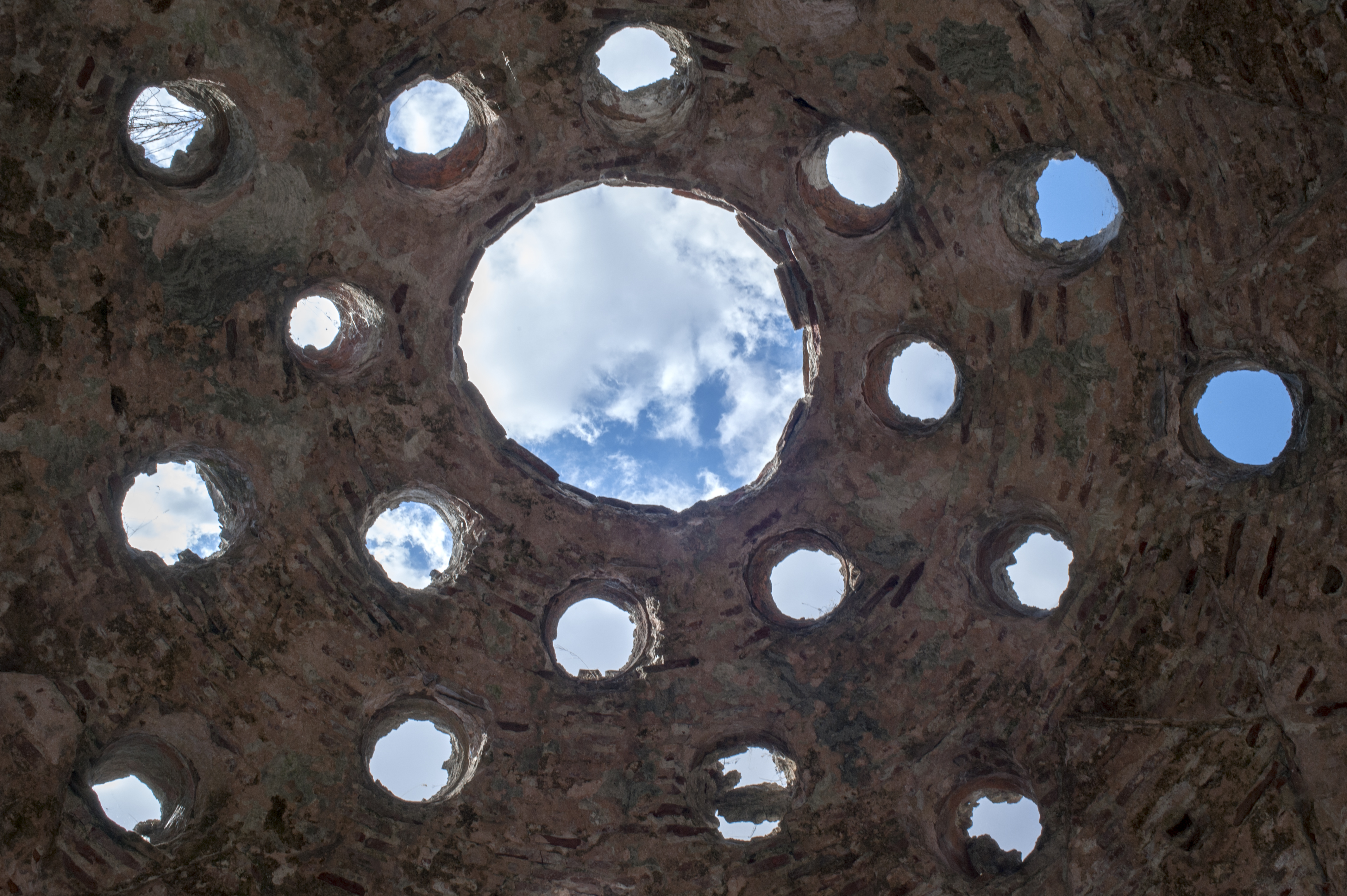 Dome - Ottoman baths of Ourts Pasa (Oruç Paşa Hamam), Didymoteixo, Evros, Greece.